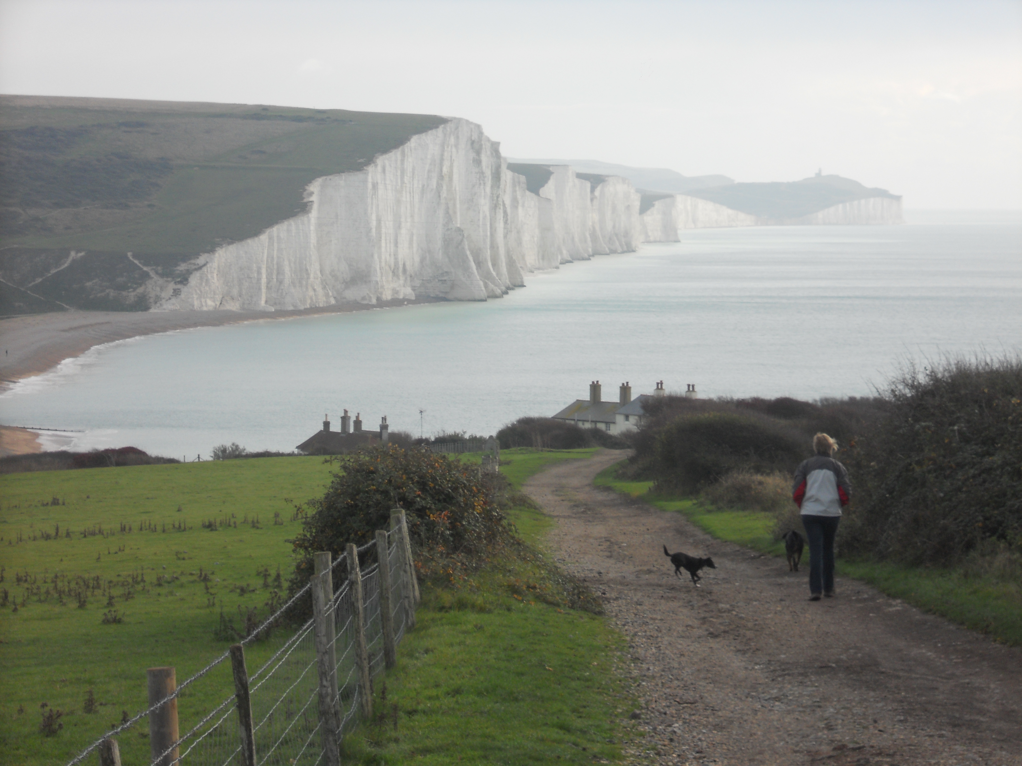 A view of The Seven Sisters from Seaford Head in November 2010.